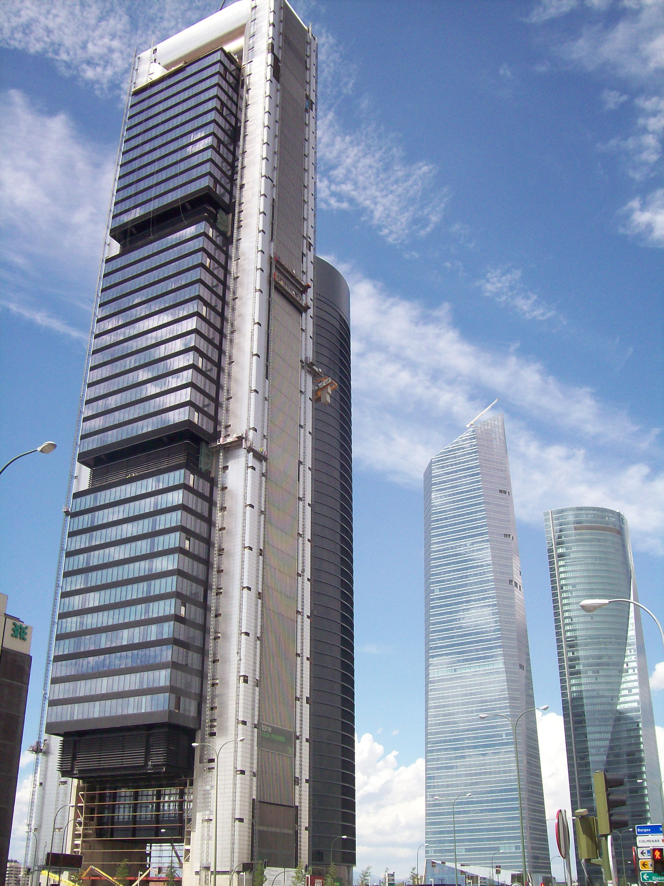 Photograph of the completed "Four Towers Business Area" of Madrid, in August 2008